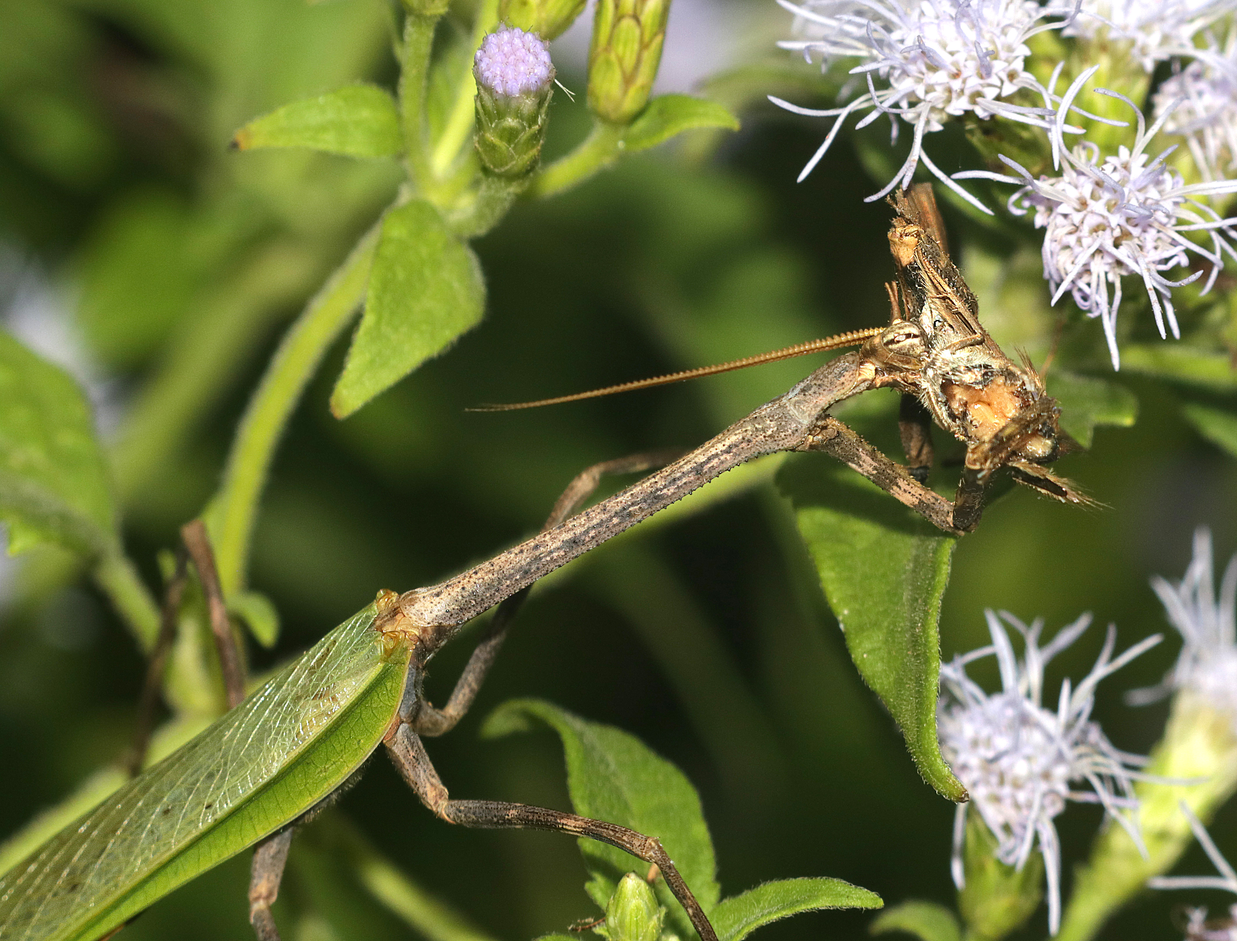 "Bugs"